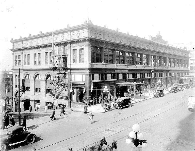 The original Frederick and Nelson department store, located in the Rialto Building (demolished for the Federal Reserve Bank Building in the 1940s) at 2nd and Madison. c.1910